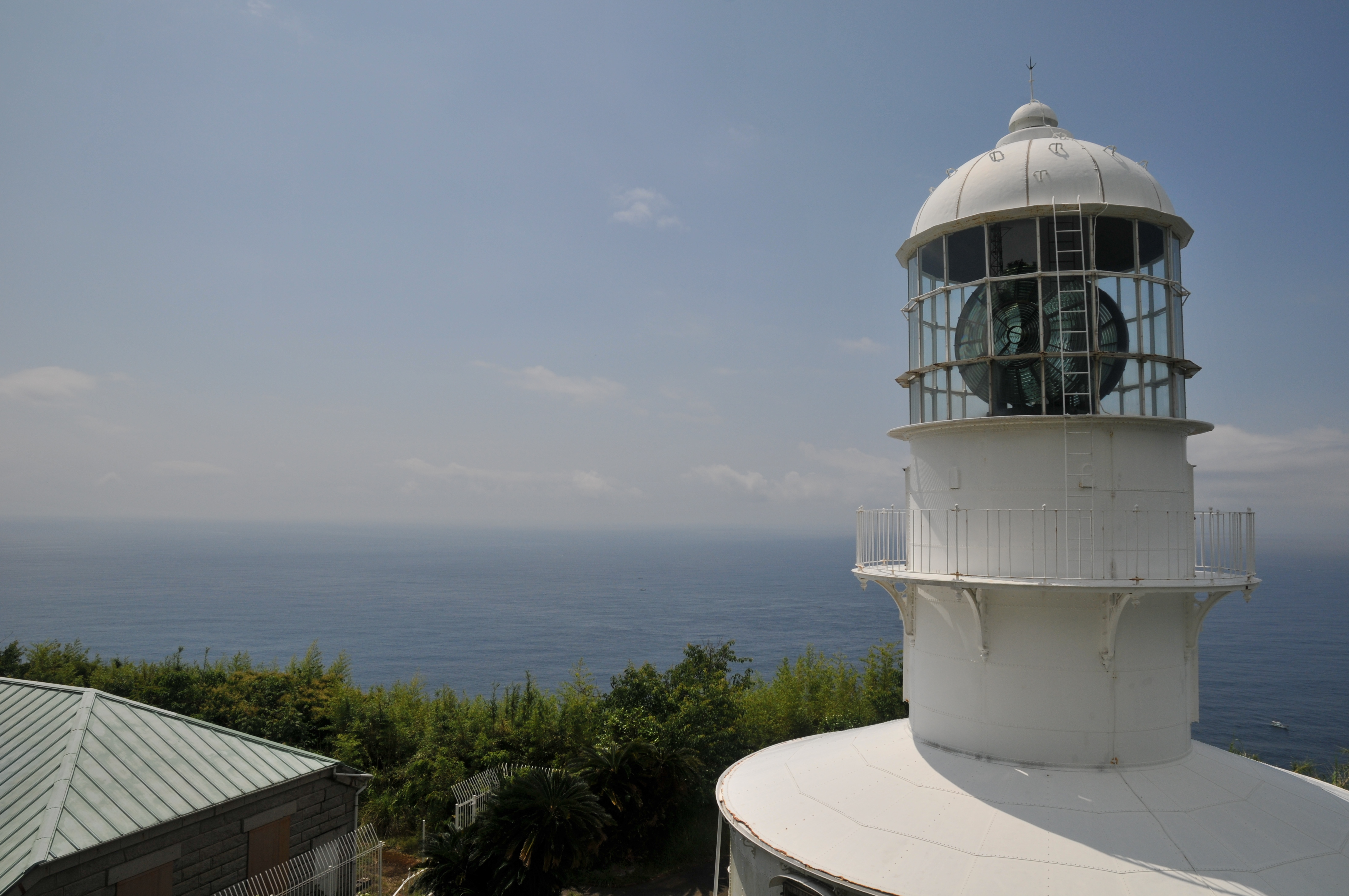 Murotomisaki lighthouse and dormitory